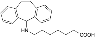 Chemical structure of Amineptine, created by myself using ISISDraw 2.5 and released under the GFDL.